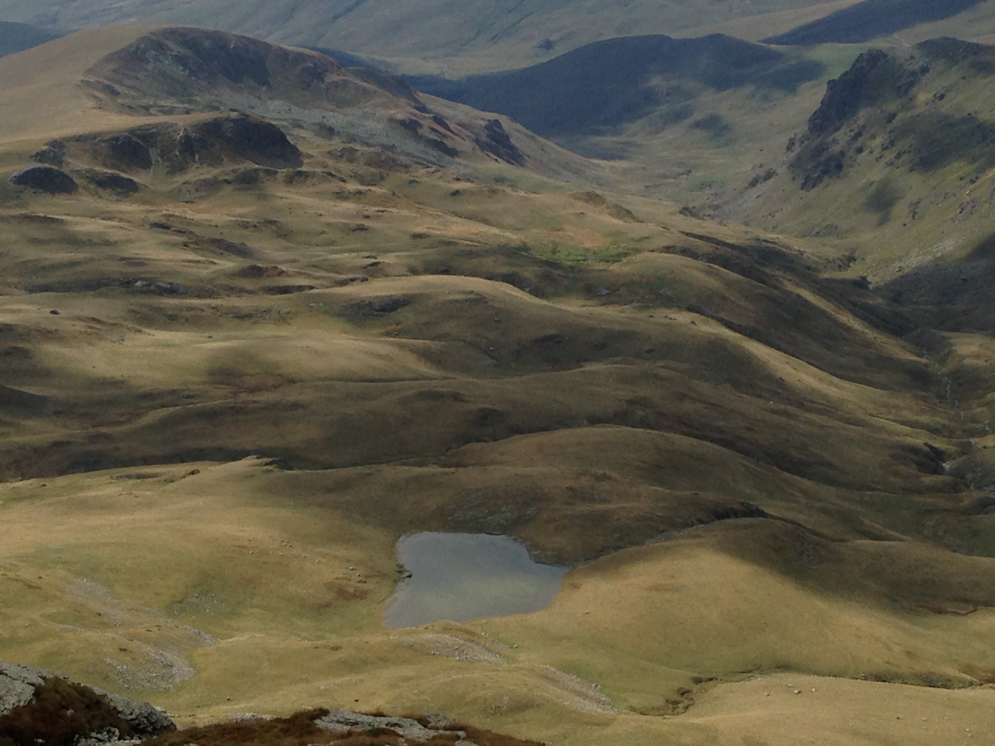 Lower Defsko Lake on Shar Mountain